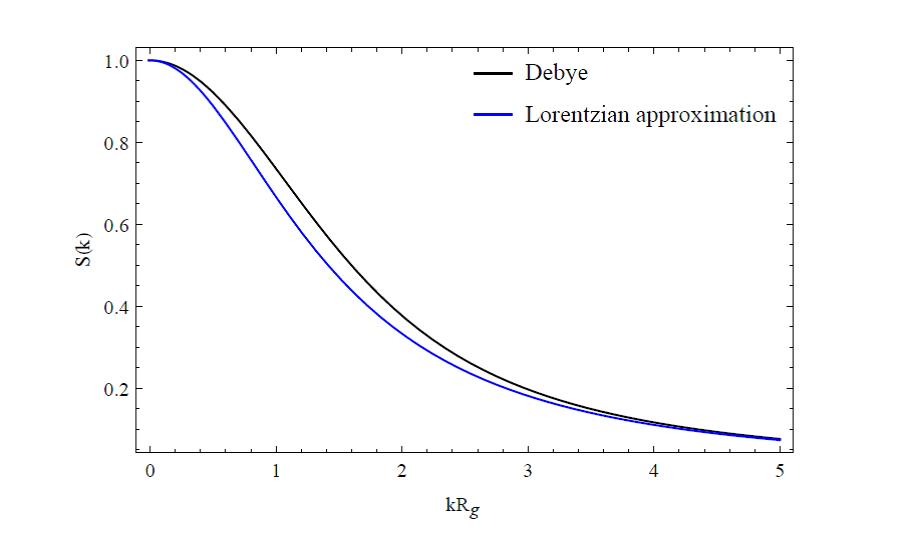 Comparison